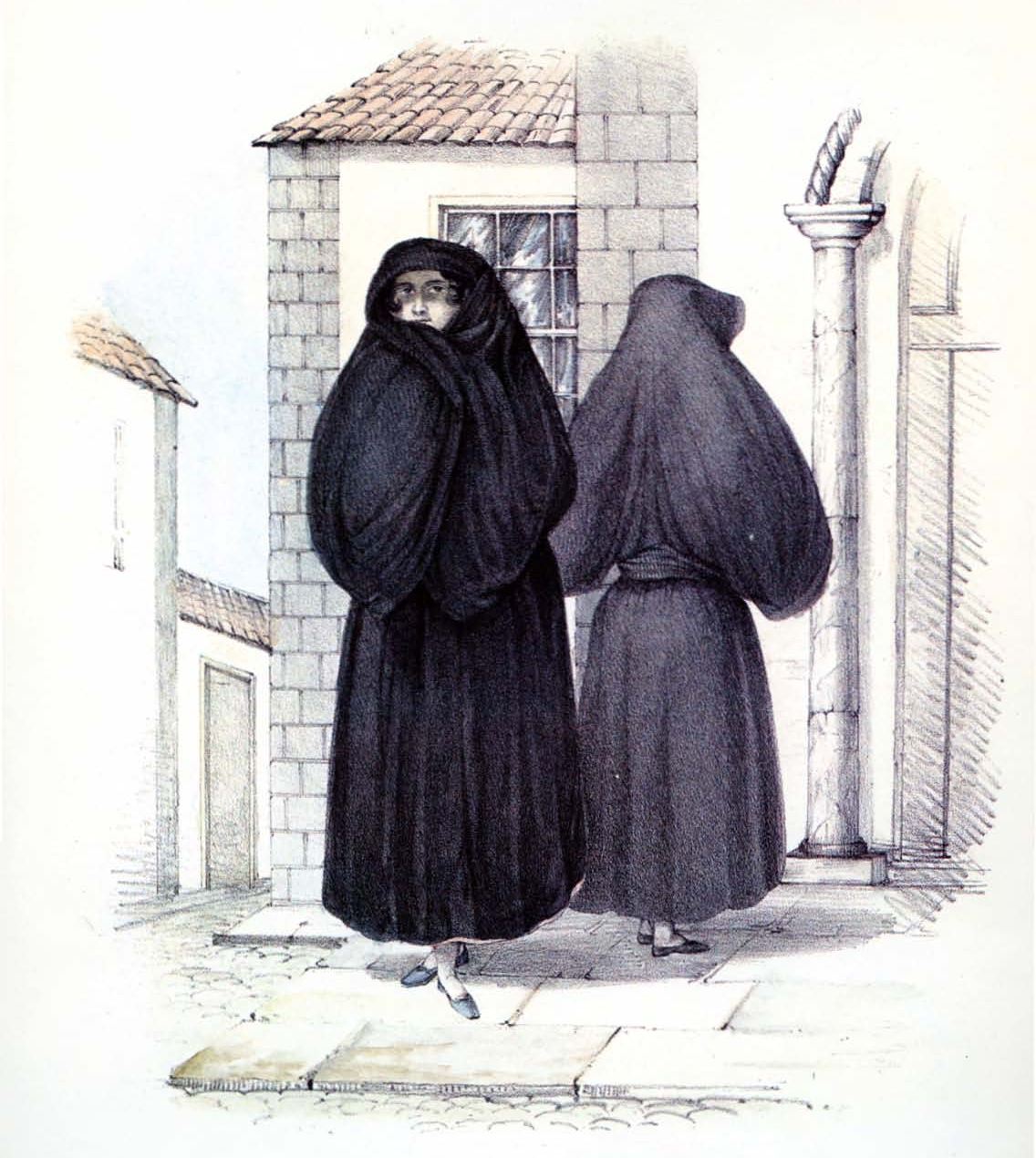 Manto y Saya. Drawing made by Alfred Diston and published in "Costumes of the Canary Islands".